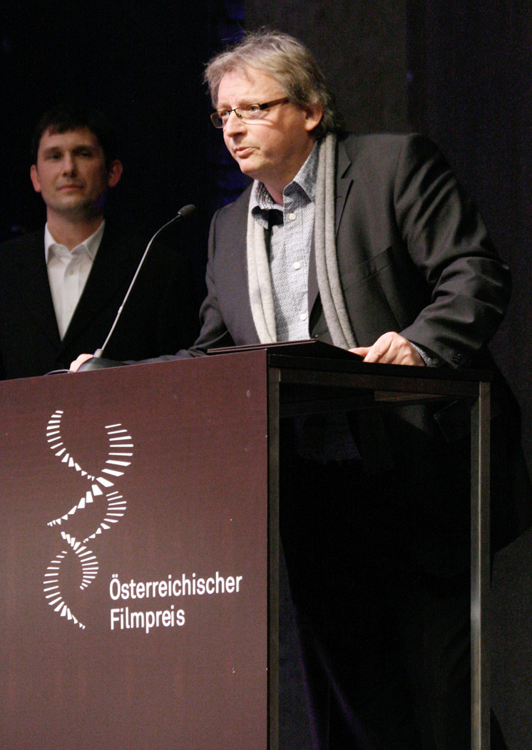 Danny Krausz and Rupert Henning at the Austrian Film Awards 2011 at the Odeon theater in Vienna.